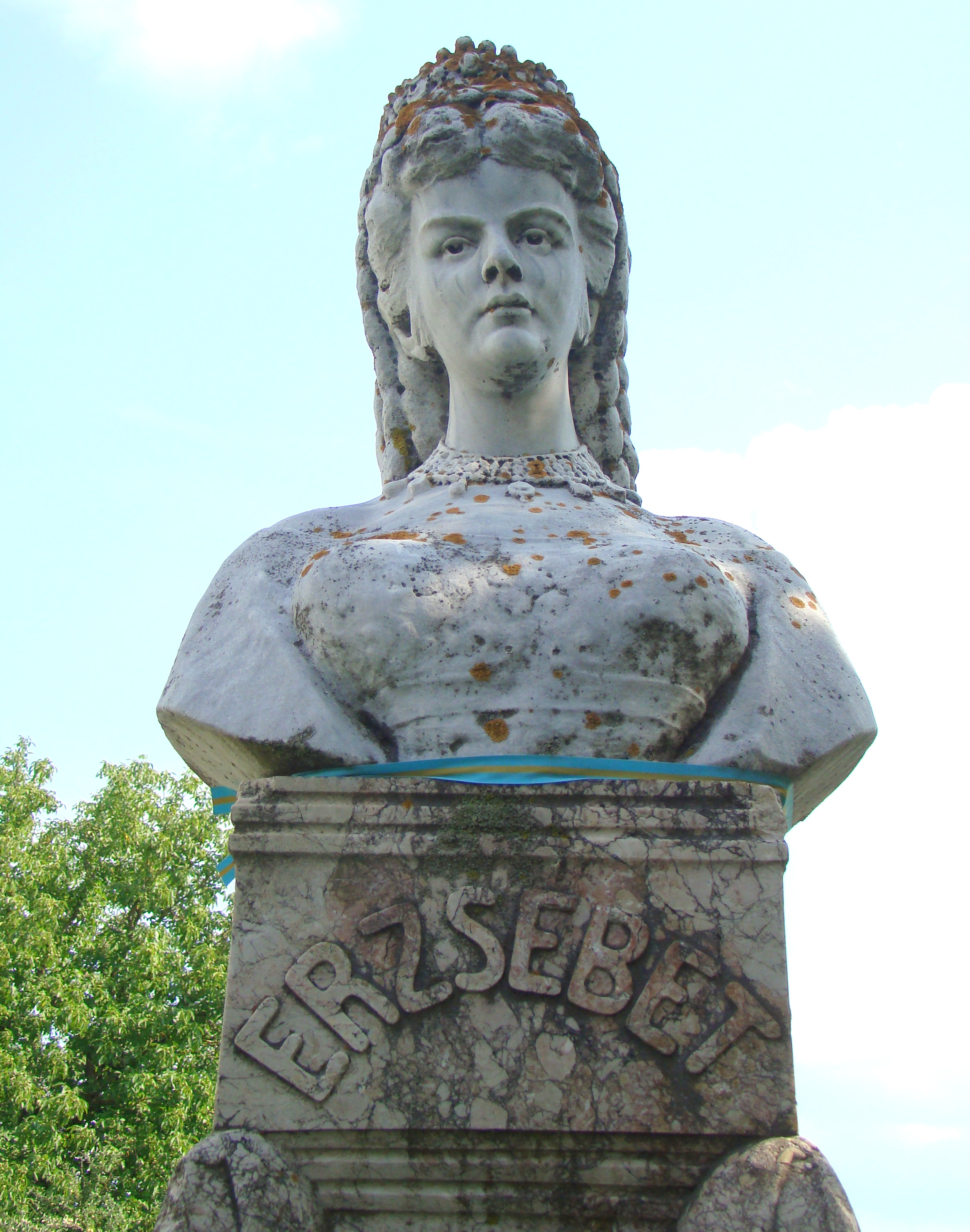 Lutheran church in Hălmeag, Brașov County, Romania